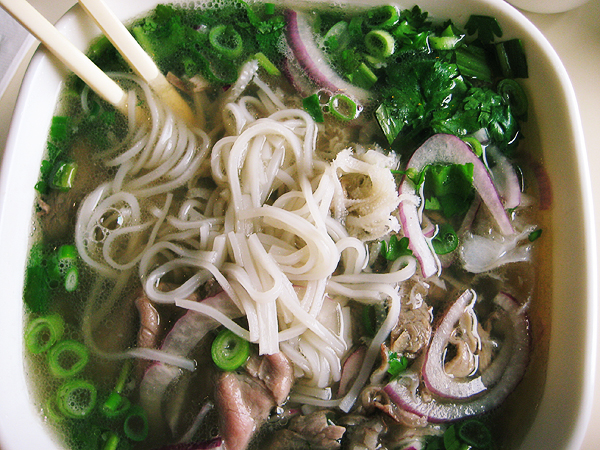 Phở